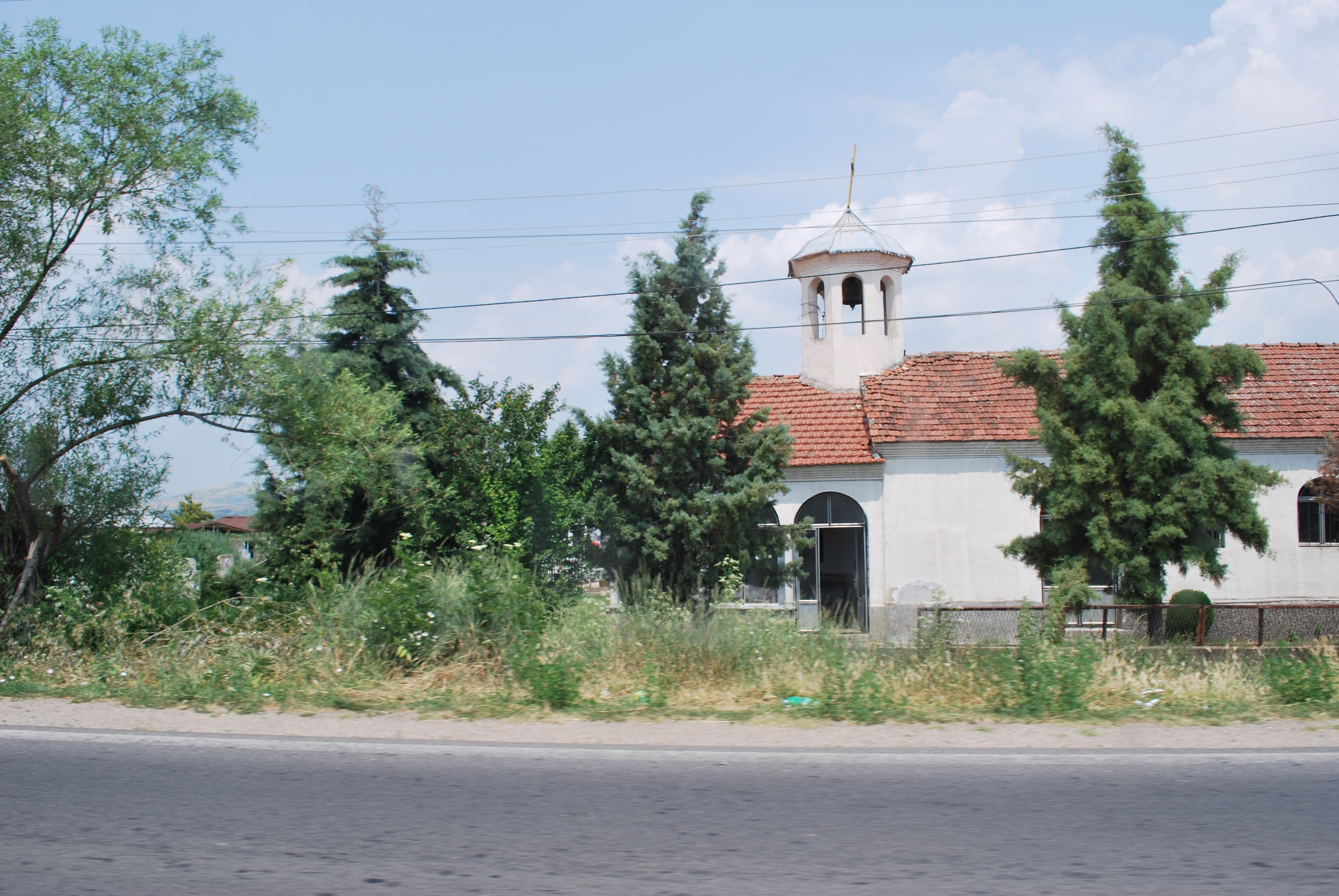 St. Nedela Church in Obleševo, Macedonia